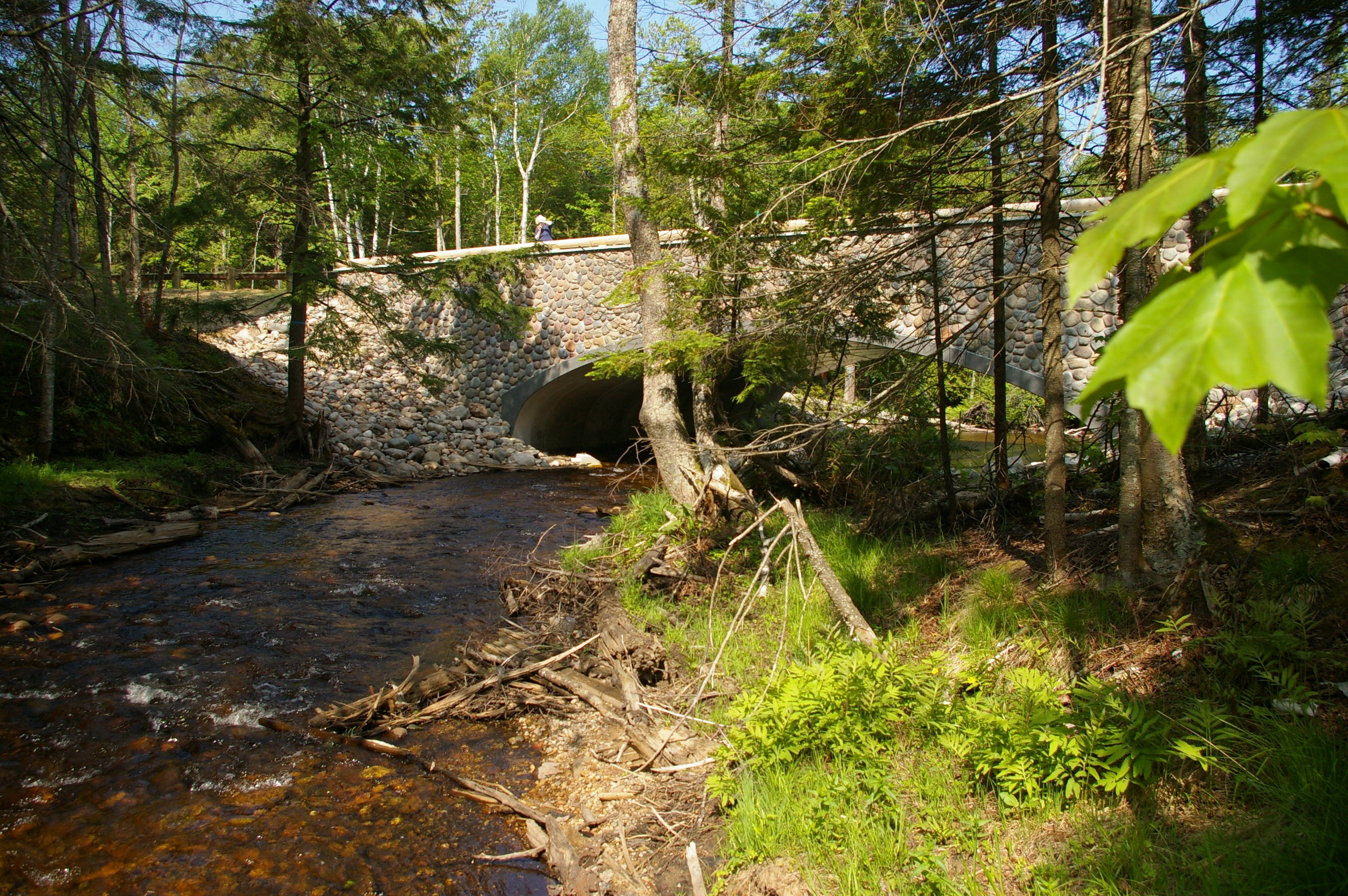 A picture of the new bridge on H-58 over the Hurricane River in the Pictured Rocks National Lakeshore.